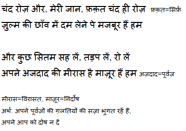 Example for gloss in Hindi-Urdu. These are a couple of verses by Faiz Ahmed Faiz.